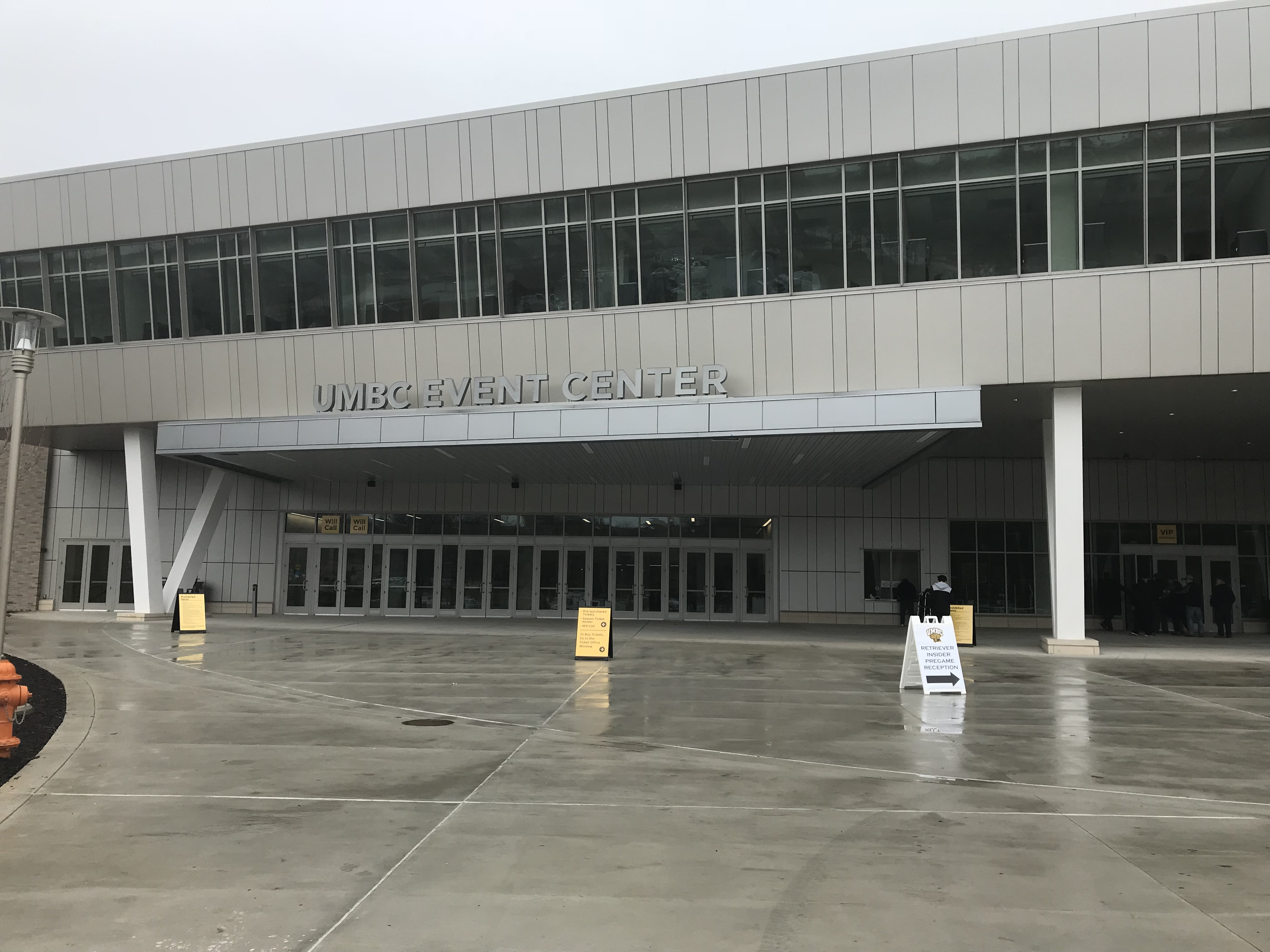 The exterior of the UMBC Event Center